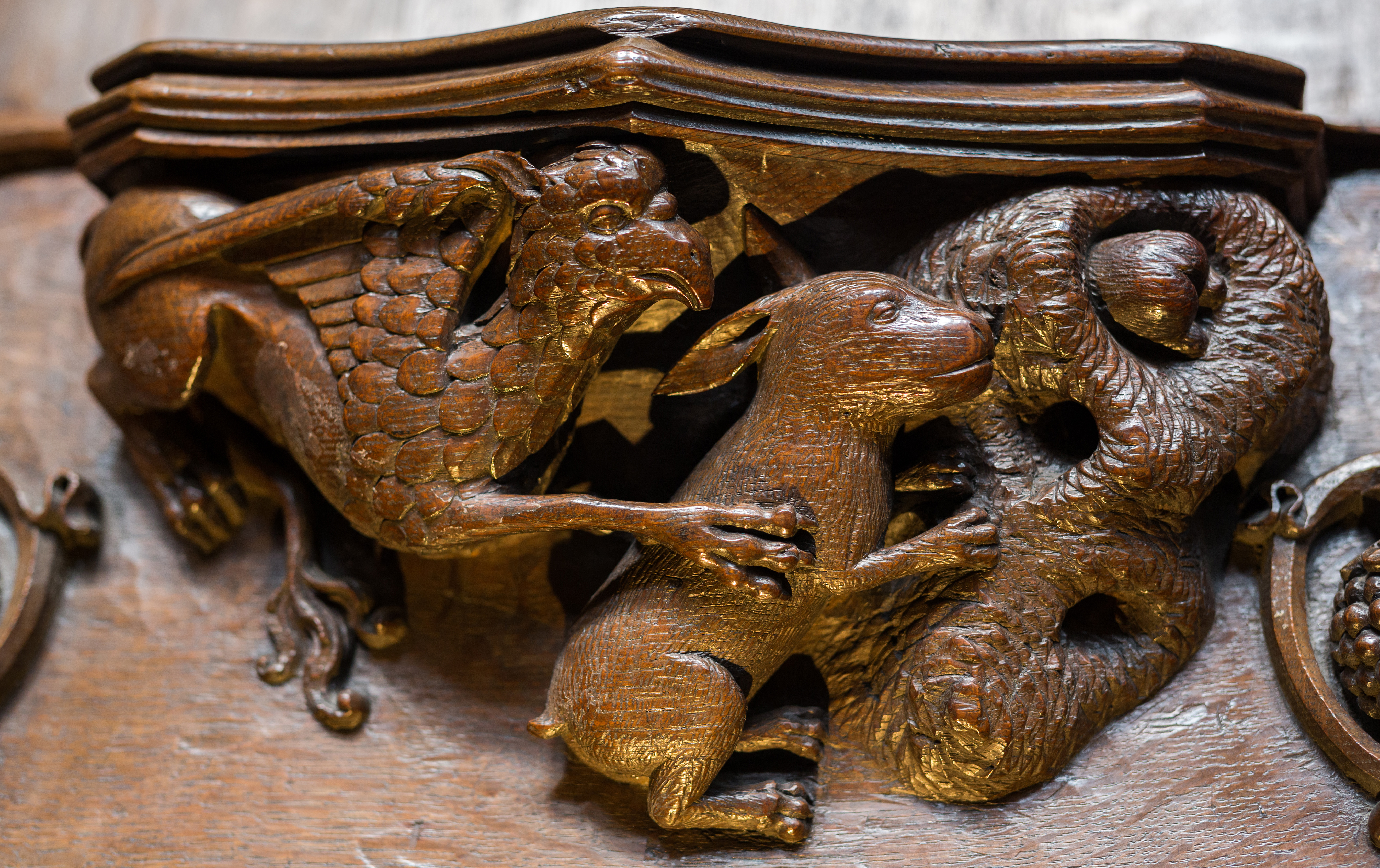 A misericord at Ripon Cathedral, Yorkshire, England, and believed to be the inspiration for the Lewis Carroll's griffin and rabbit hole in Alice in Wonderland.